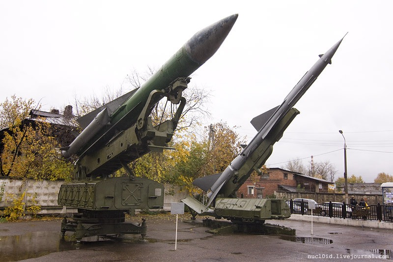 5P72 (left) and SM-90 (right) launchers of S-200 and S-75 SAMs. Motovilikha Plants museum in Perm Russia.